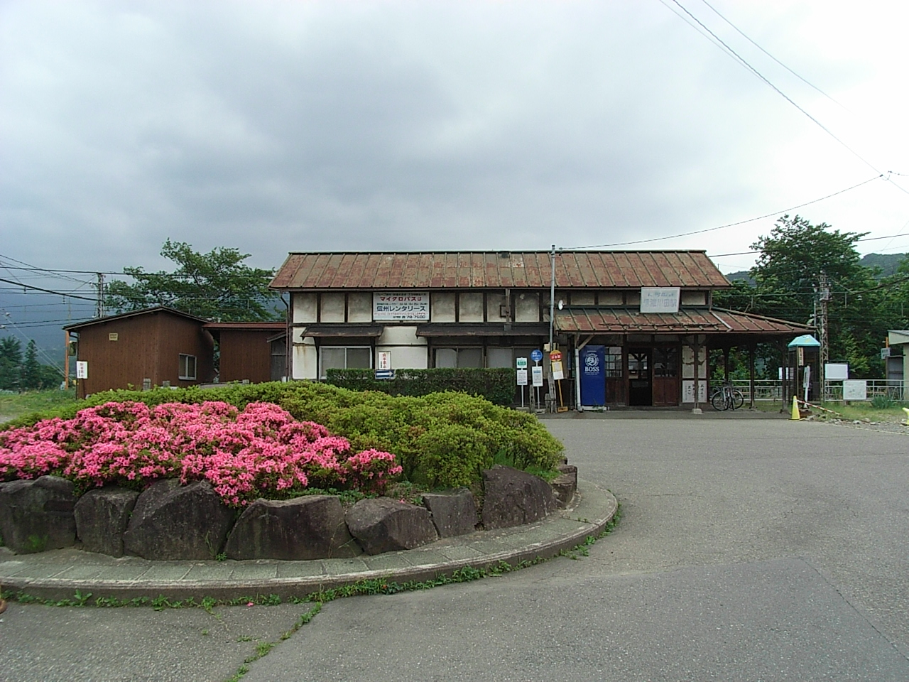 Shinanokawada Station on Nagano Electric Railway Yashiro Line. (3180-2,Wakahokawada,Nagano-shi,Nagano-ken,JAPAN)